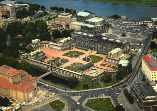 Aerial view of the Zwinger in Dresden